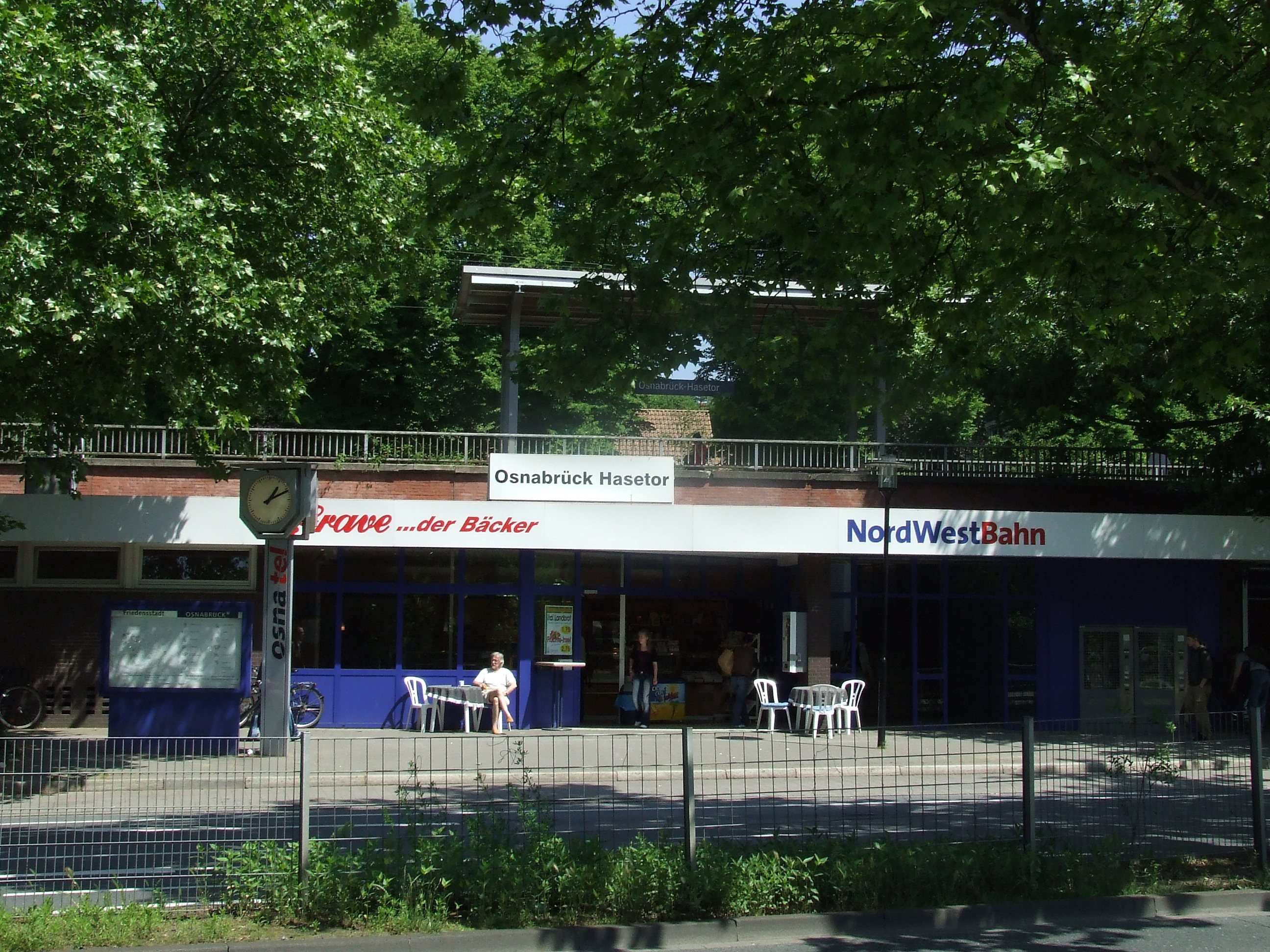 OS-Hastor